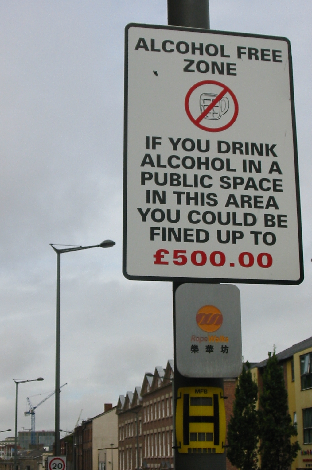 Liverpool